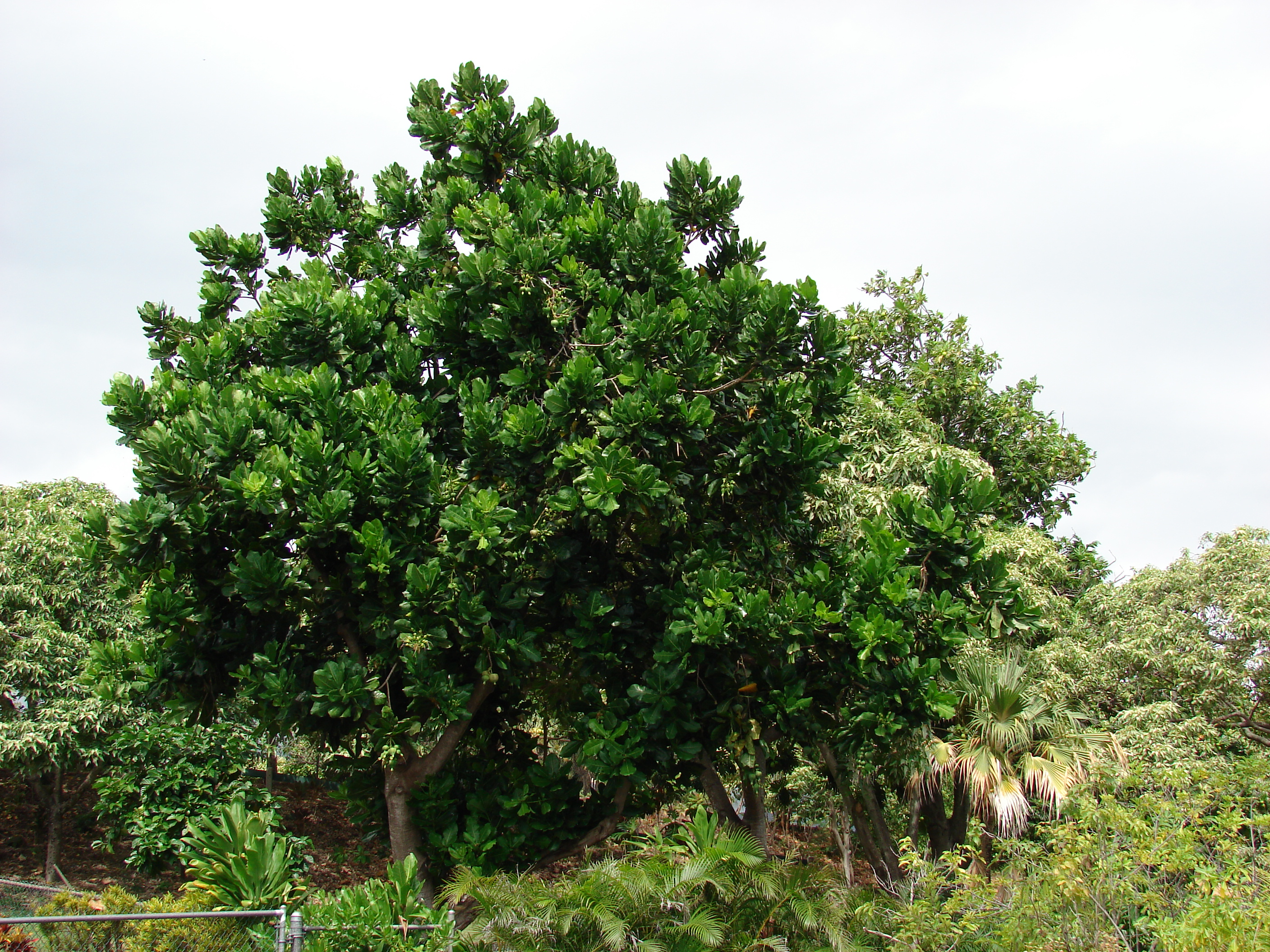 Barringtonia asiatica (habit). Location: Maui, County Nursery Kahului